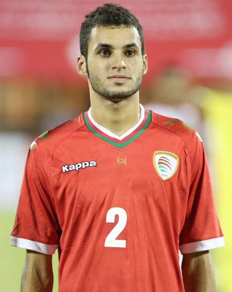 Ali Al-Busaidi with Oman national football team before a friendly match against Costa Rica. 10 October 2014 Sohar Sports Complex, Sohar, Oman Photographer email id